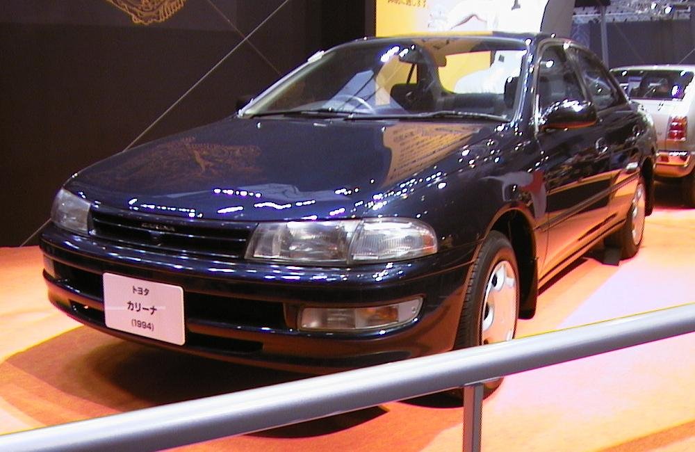 Toyota_Carina taken in The 35th Tokyo Motor Show